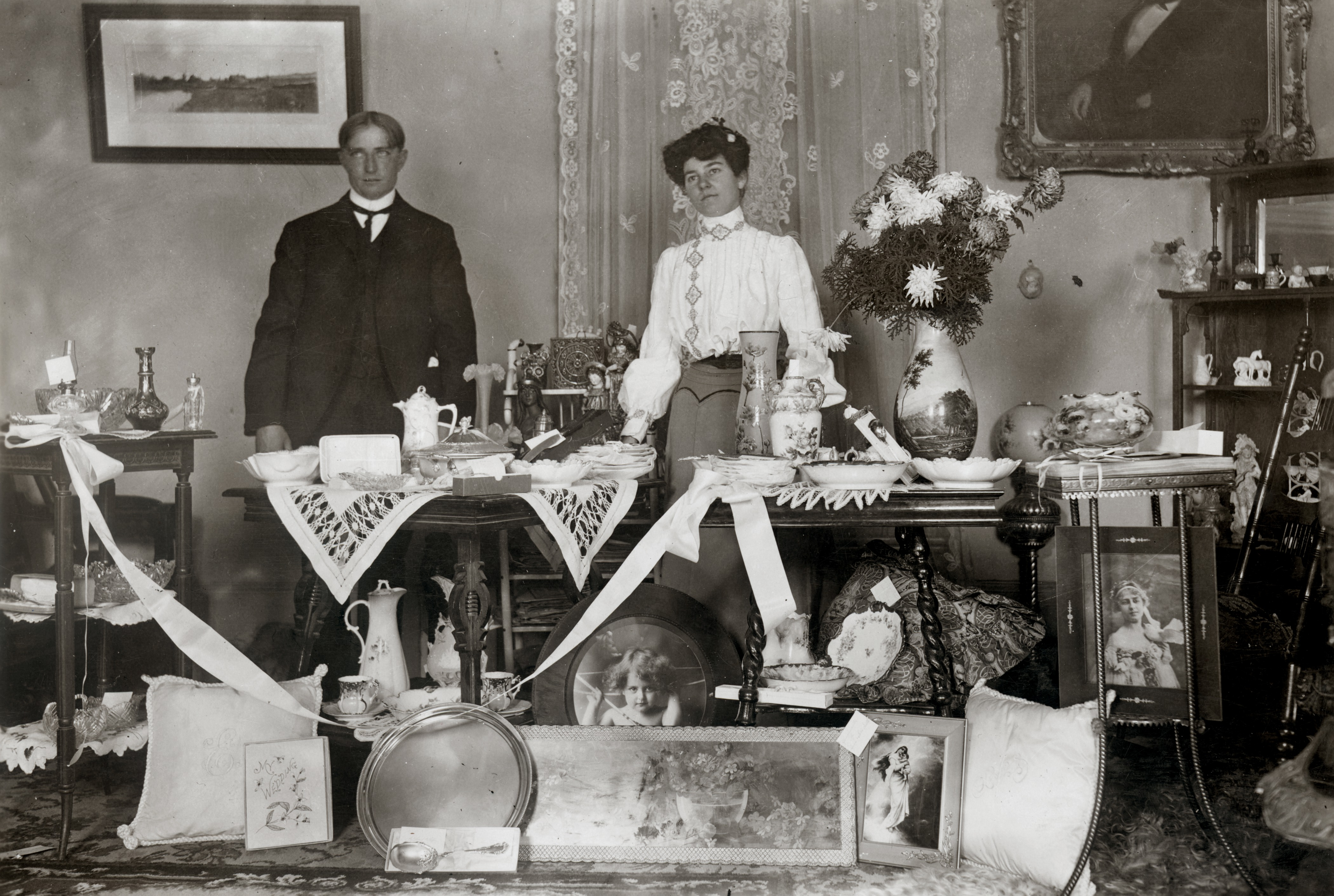 Title: Bride and Groom with wedding presents, Booneville, Missouri.